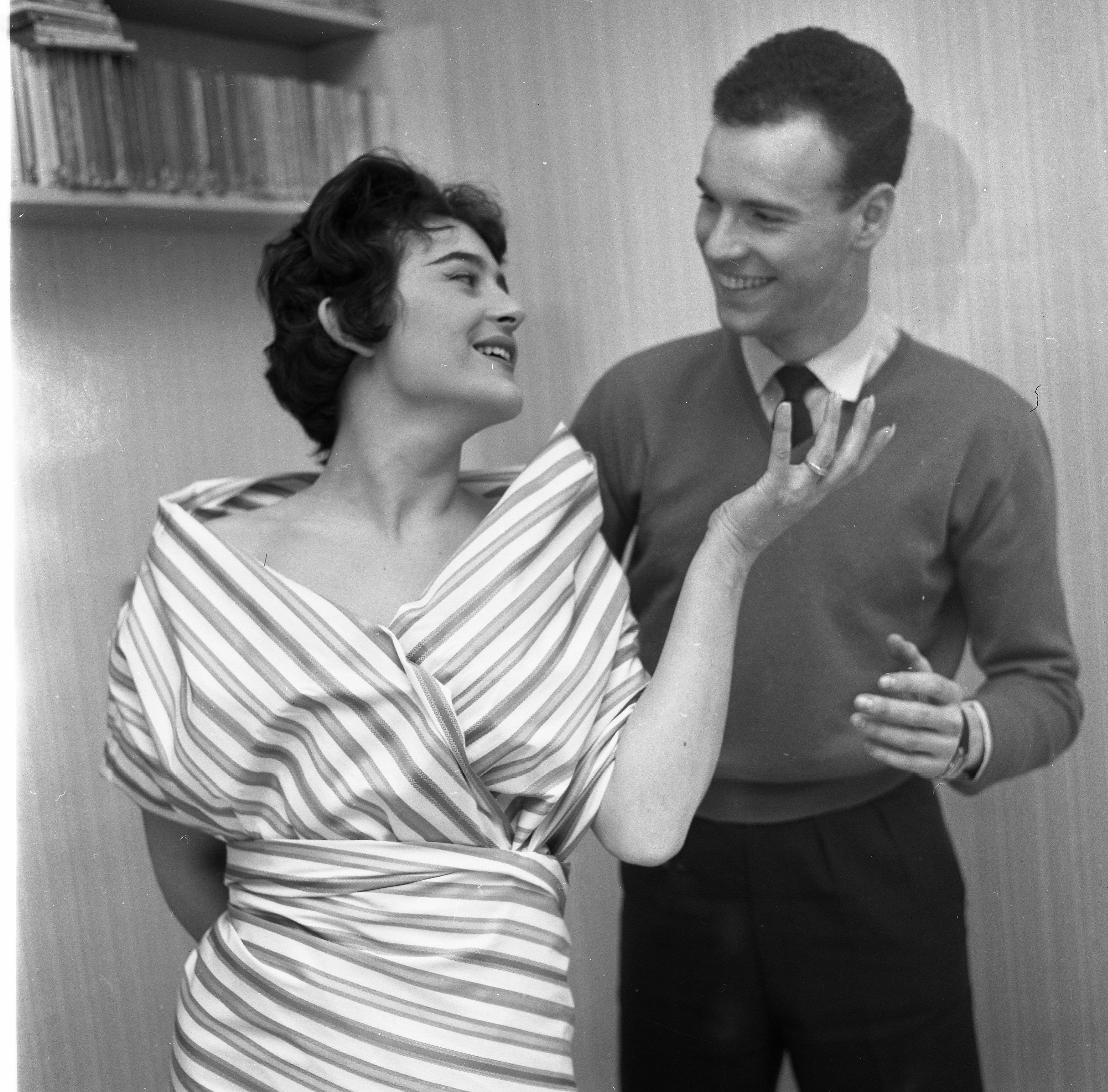 Display of William Duborgh Jensen's very first collection in Riddervoldsgate 9 at Frogner in Oslo, spring 1958. The model Bjorg is shown with William.